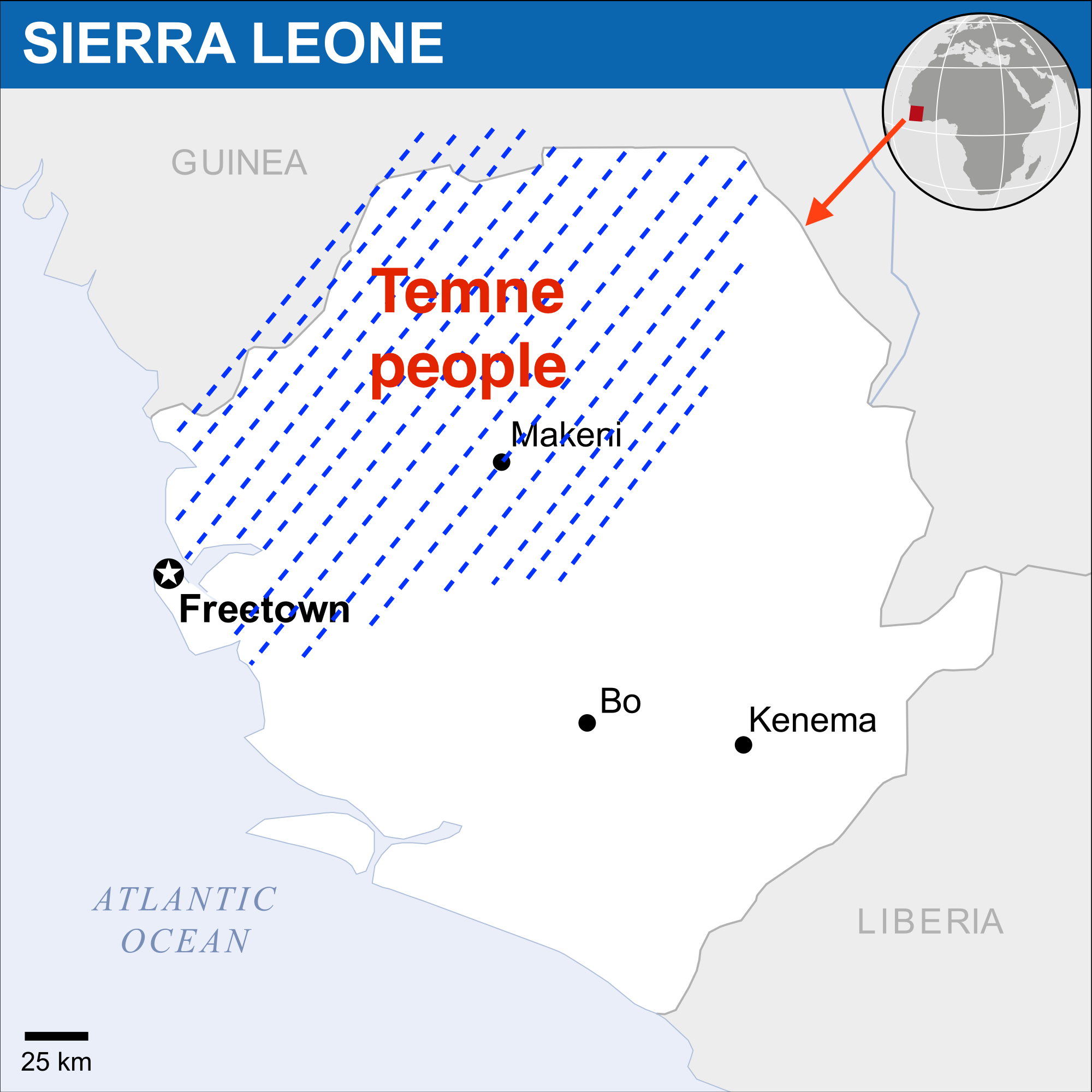 The geographic distribution of Temne people, the largest ethnic group in Sierra Leone (approx). This is a derivative work on the following wikimedia image: File:Sierra Leone - Location Map (2012) - SLE - UNOCHA.svg